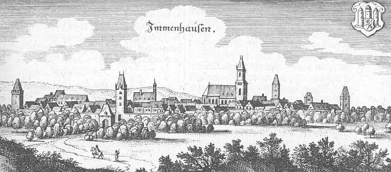 This is a scan of the historical document: Title: Immenhausen - Topographia Hassiae language: german